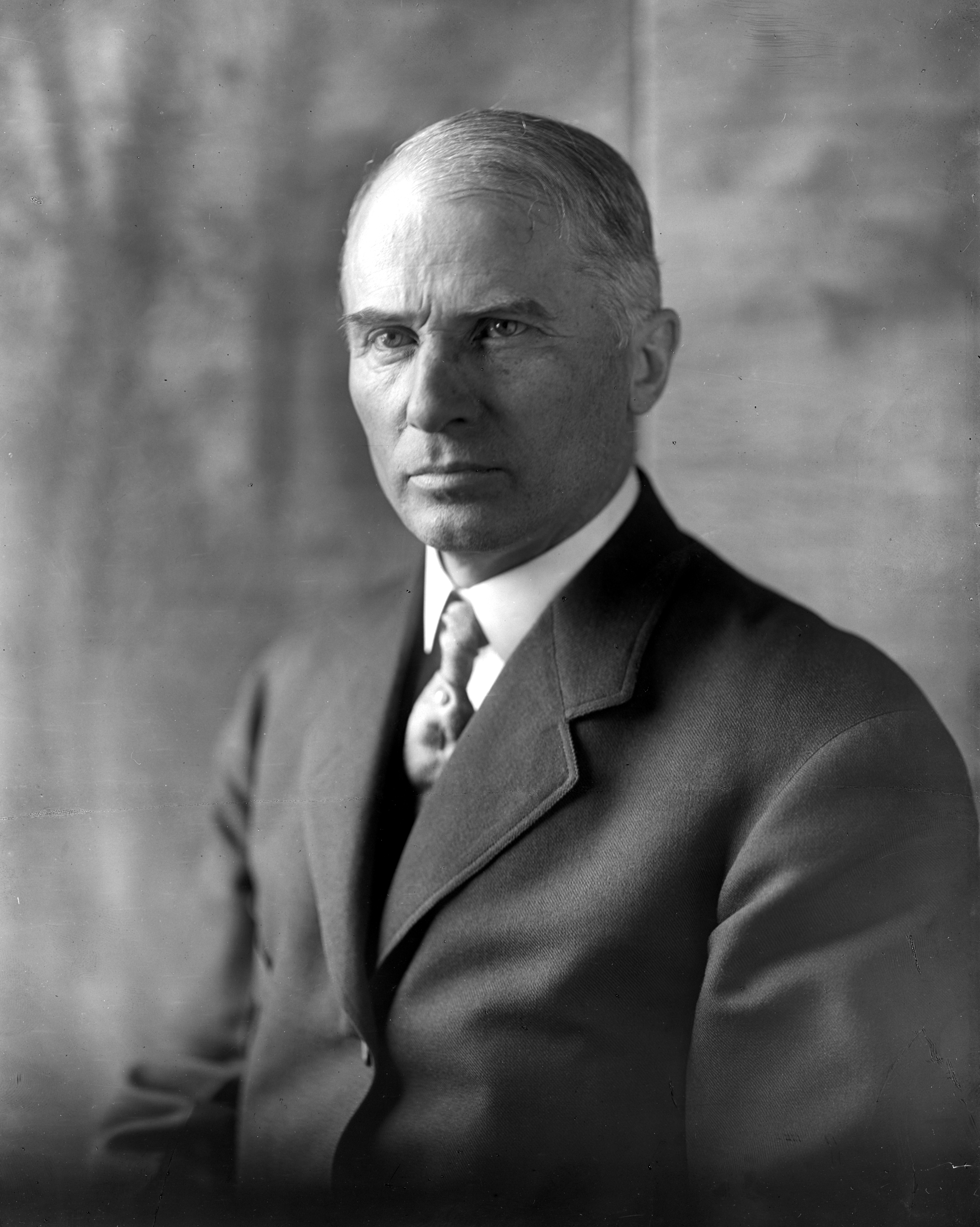 Photo of Daniel Willard (1861-1942), American railroad executive and President of the Baltimore and Ohio Railroad, 1910-1941. Prior to joining the B&O, he held management positions at Erie Railroad; Chicago, Burlington and Qunicy Railroad; and Colorado and Southern Railway. He also served as trustee and Chairman of the Board of Johns Hopkins University.